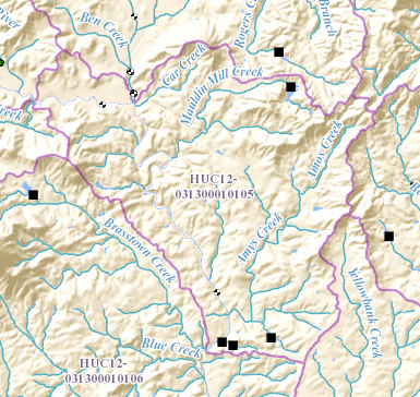 HUC 031300010105 - Amys Creek-Chattahoochee River. Amys Creek comes from the north-central area of the sub-watershed, and joins the Chattahoochee River, whcih cuts through the sub-watershed from the west, in the southwestern region.